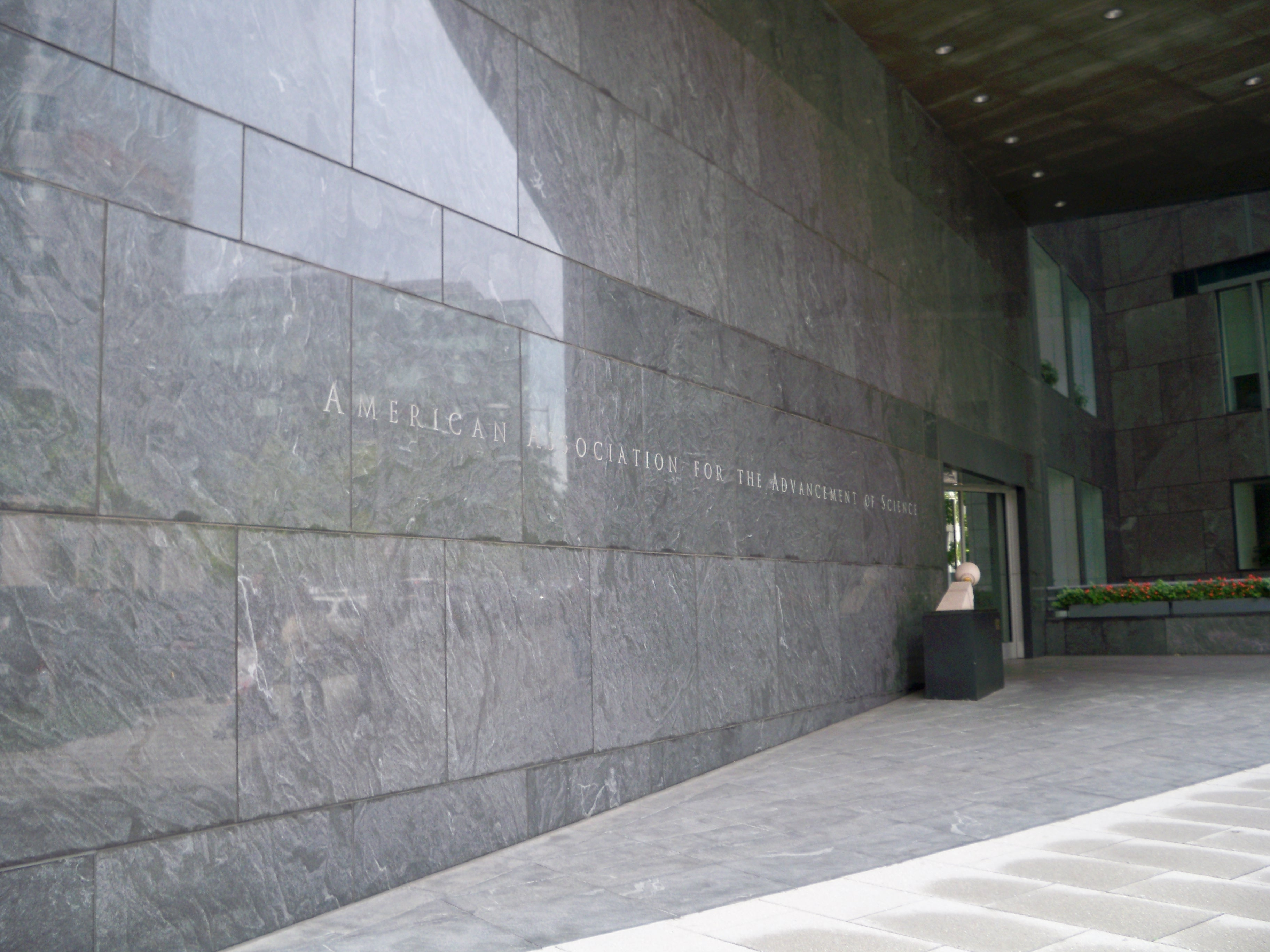 Exterior shot of the south entrance to the American Association for the Advancement of Science in Washington, DC.